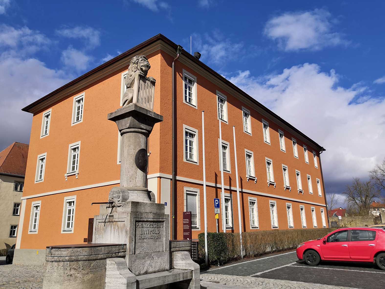 Mellrichstadt, center of the "Verwaltungsgemeinschaft" with Luitpold-spring